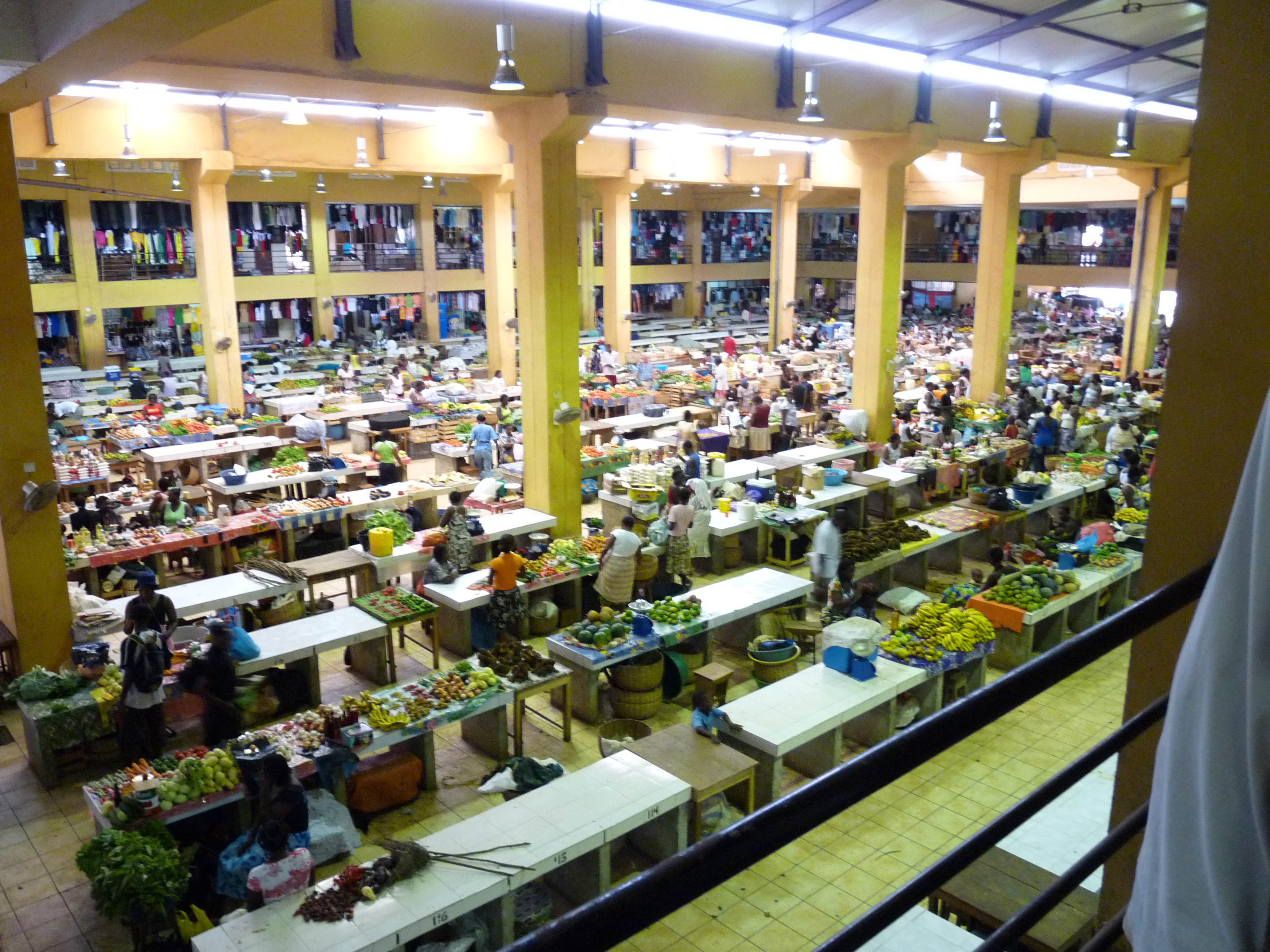 In the capital city, the marketplace serves as a venue for local fishermen and farmers. Sao Tome & Principe, West Africa